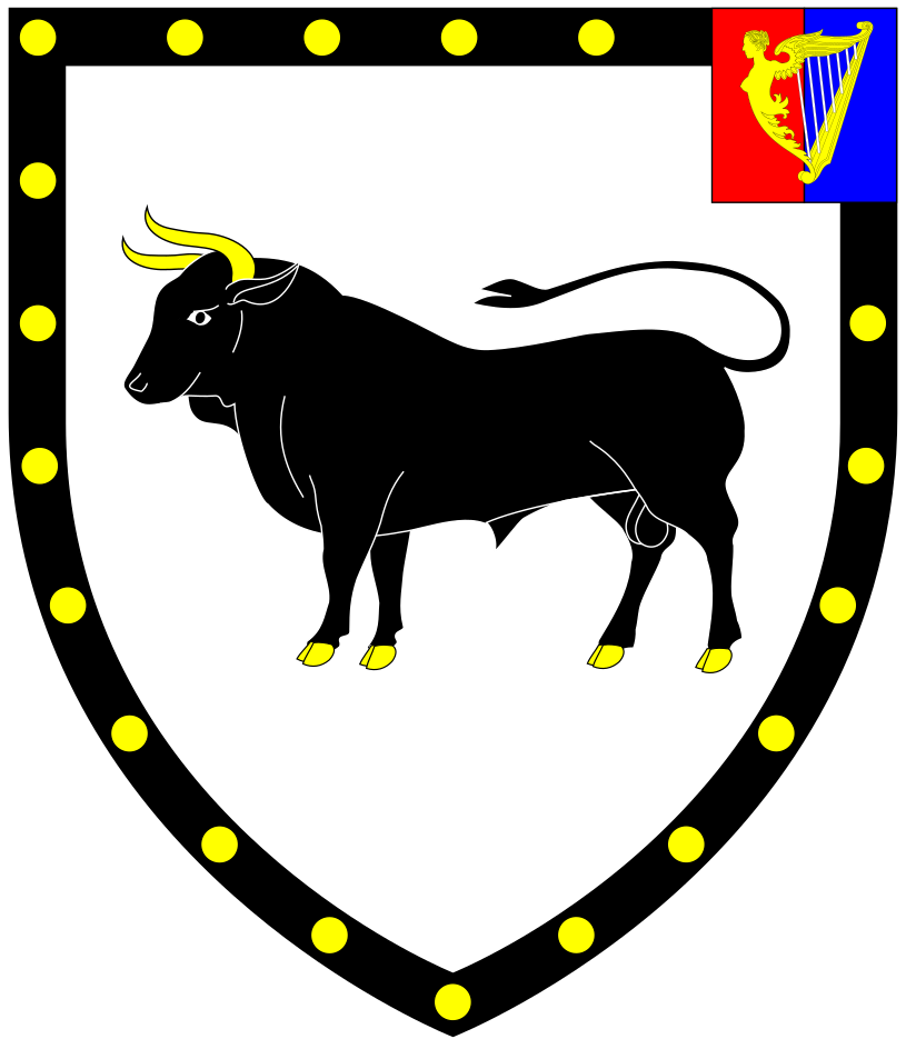 Arms of Cole, Earl of Enniskillen: Argent, a bull passant sable armed or a bordure of the second bezantée on a canton sinister per pale gules and azure a harp of the third stringed argent (Kidd, Charles, Debrett's peerage & Baronetage 2015 Edition, London, 2015, p.P425). These are the arms of the Cole family of Nethway in the parish of Brixham, Devon, (Vivian, Lt.Col. J.L., (Ed.) The Visitations of the County of Devon: Comprising the Heralds' Visitations of 1531, 1564 & 1620, Exeter, 1895, p.213) differenced by a canton.